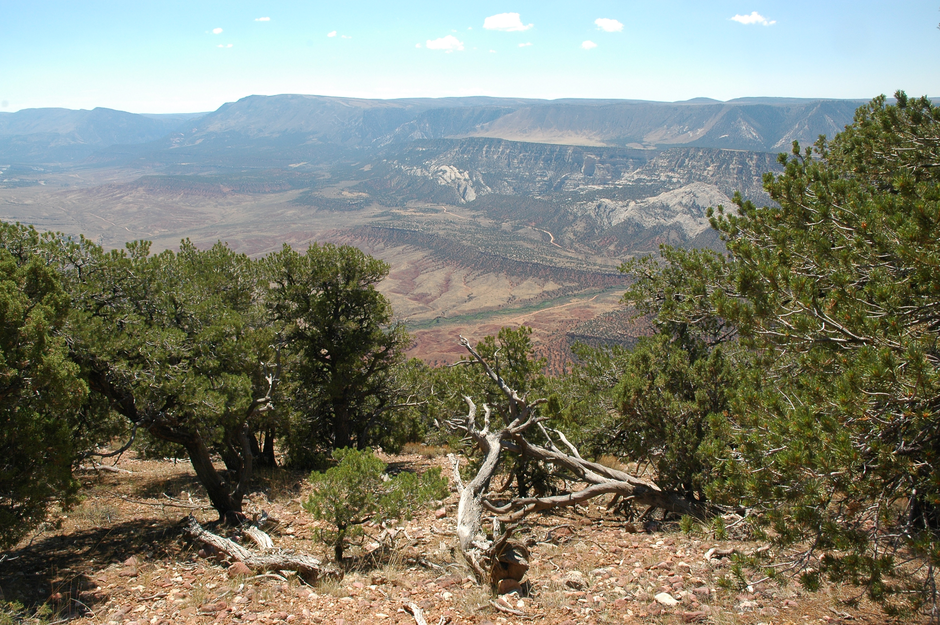 A view ("uitzicht" in Dutch) of the Yampa River from a high overlook — in Colorado.